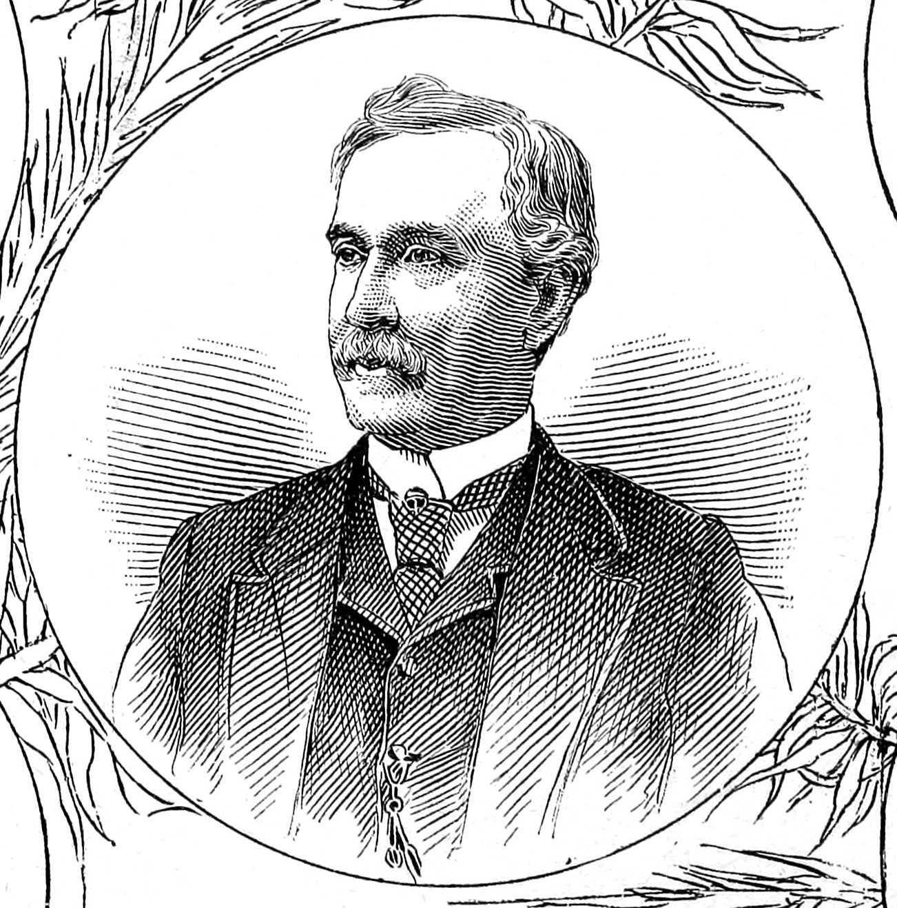 Detail from plate titled "Representative Men" (page 6 of Industries of Richmond), of the inset showing "Gen'l Joseph R. Anderson, President of the Tredegar Iron Company". (Image modifications: rotated, cropped, color and brightness level adjustments, spot removal)